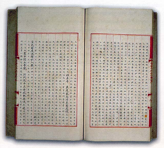 Youngle Dadian Chinesse Encyclopedia (1403)